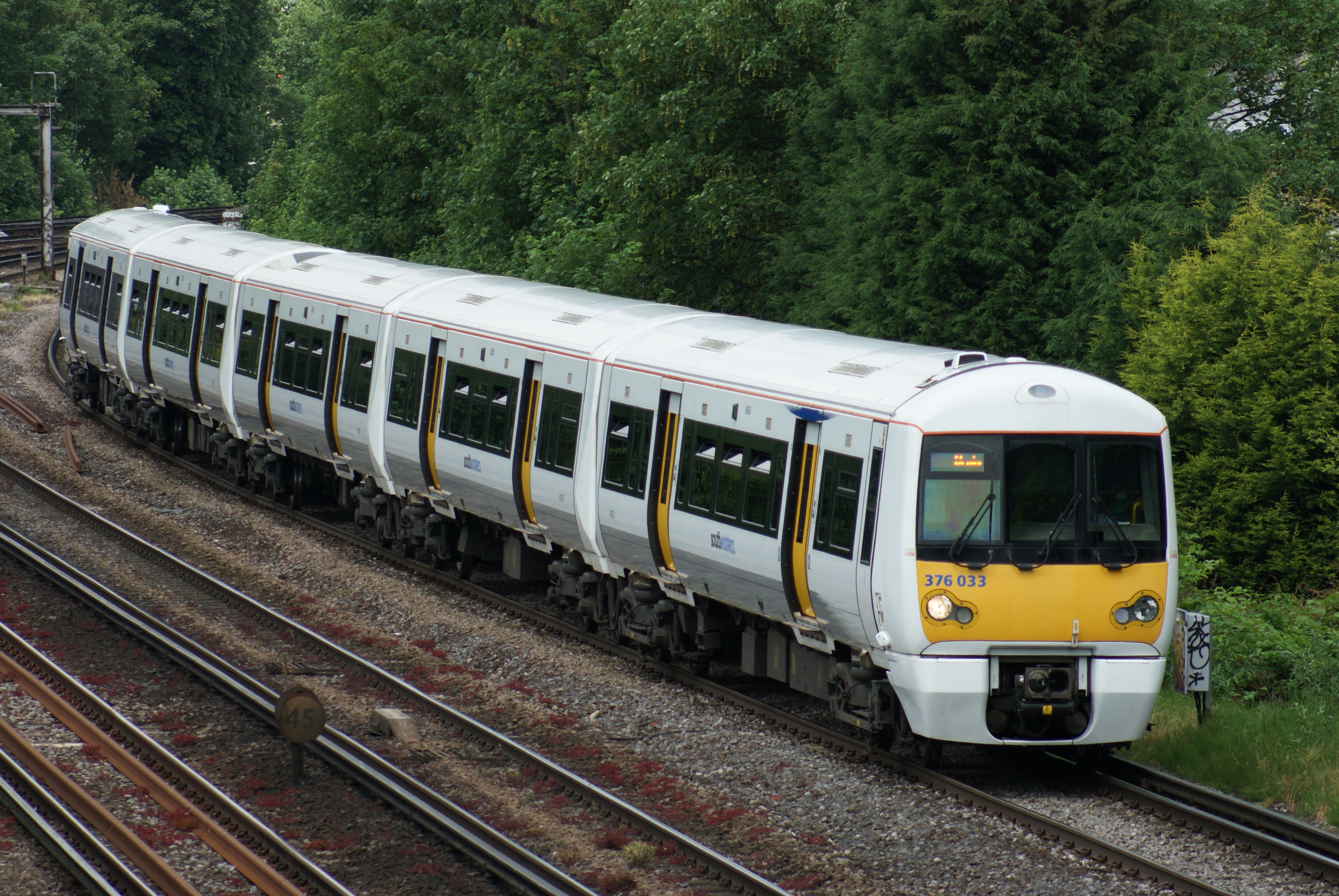 376033 approaches Hither Green en route to South East London